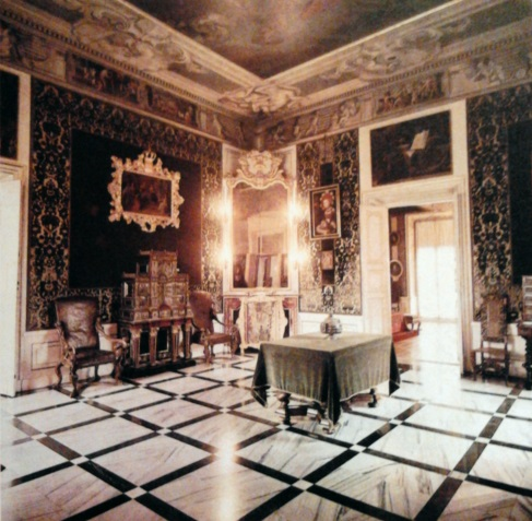 King's Antechamber in the Wilanów Palace.label QS:Len,"King's Antechamber in the Wilanów Palace." label QS:Lpl,"Antykamera Króla w Pałacu w Wilanowie." label QS:Lfr,"L'antichambre du roi dans le palais de Wilanów."